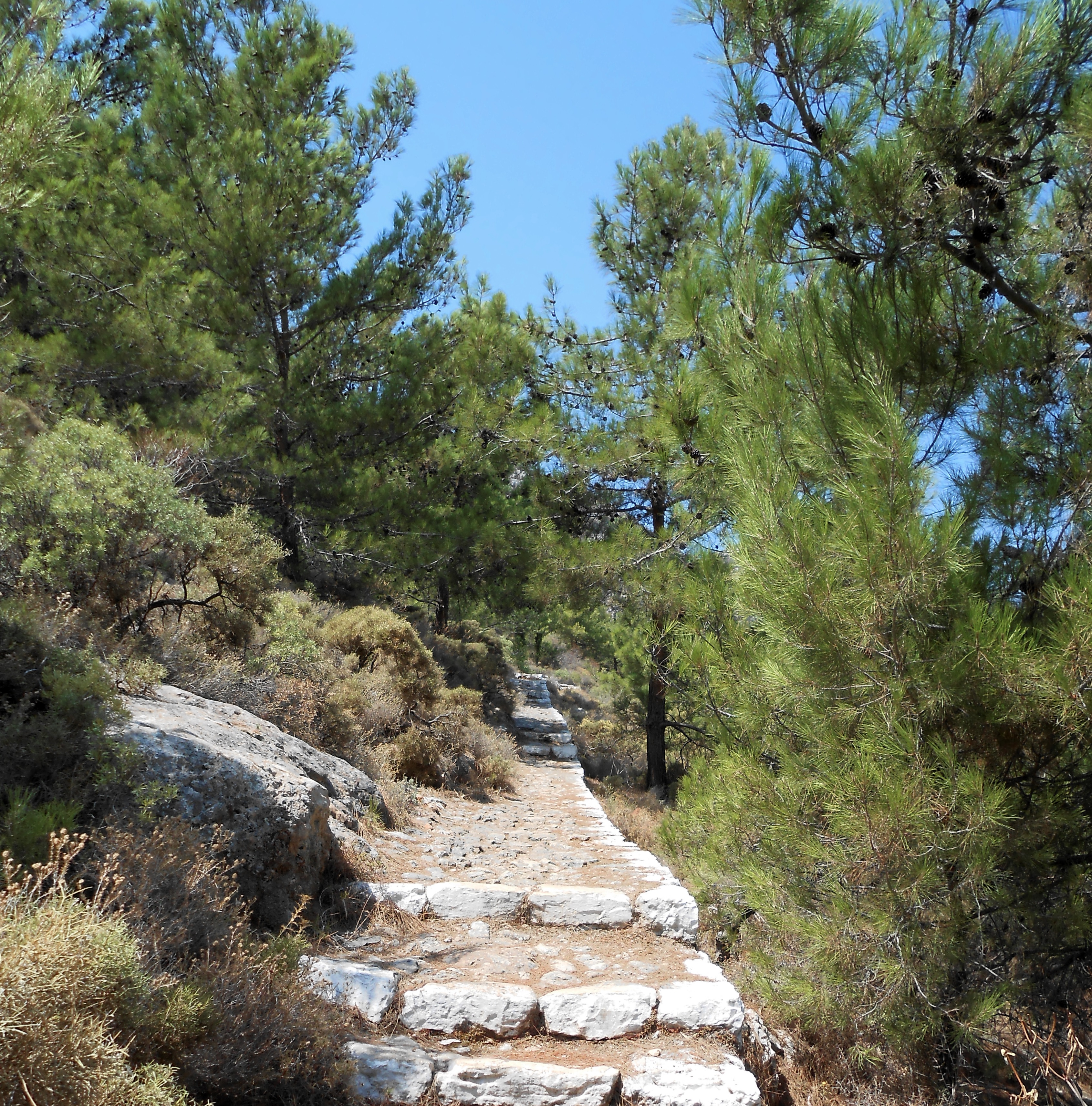 A path among pine trees in Kastellorizo Island, Dodecanese, Greece. This is a photography of Natura 2000 protected area with ID GR4210004